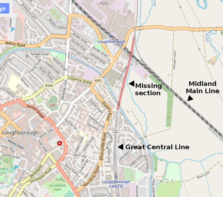 Map of the Loughborough Gap. The missing section (marked in red) where the Great Central Railway crosses the Midland Main Line. This map may be incomplete, and may contain errors. Don't rely solely on it for navigation.